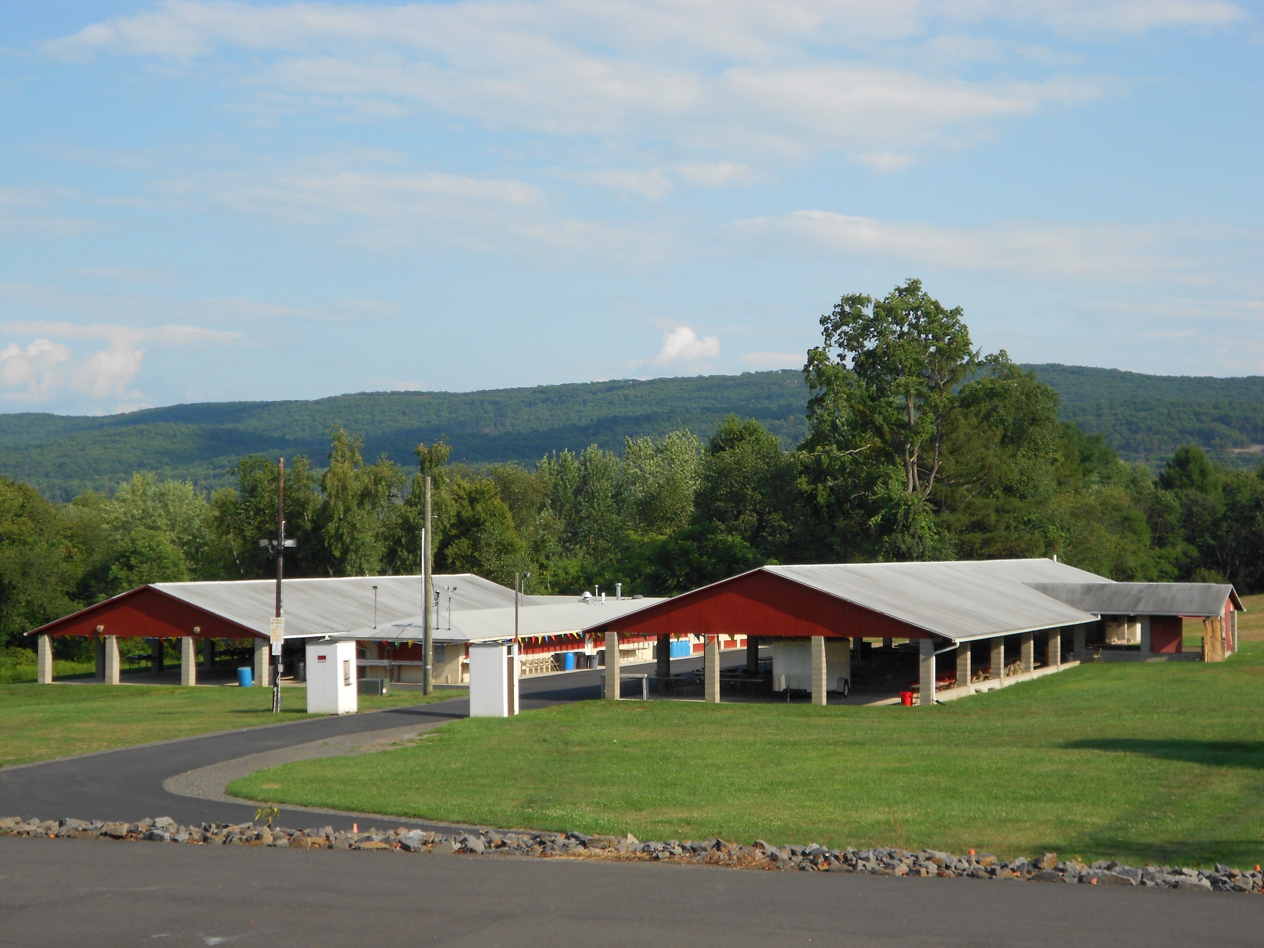 View of picnic area at St. Stanislaus Institute, on the NRHP since December 30, 2008, at 141 Old Newport Street, Newport Township, Luzerne County, Pennsylvania. Just outside the small town of Nanticoke.